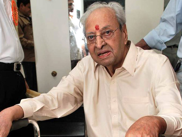 Bollywood actor Pran at the Dada Saheb Phalke Academy Awards 2010